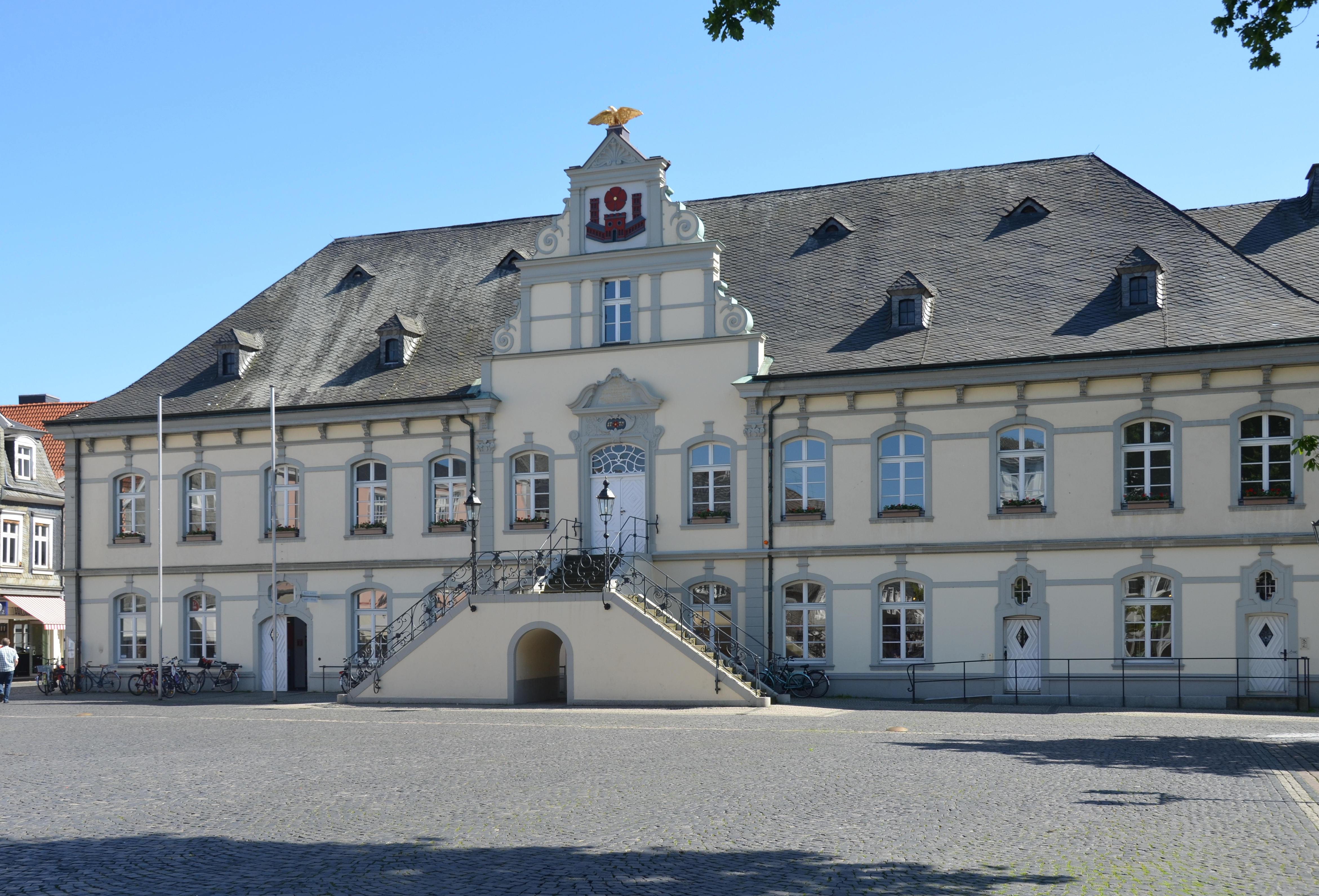 Cultural heritage monument in Lippstadt, Germany